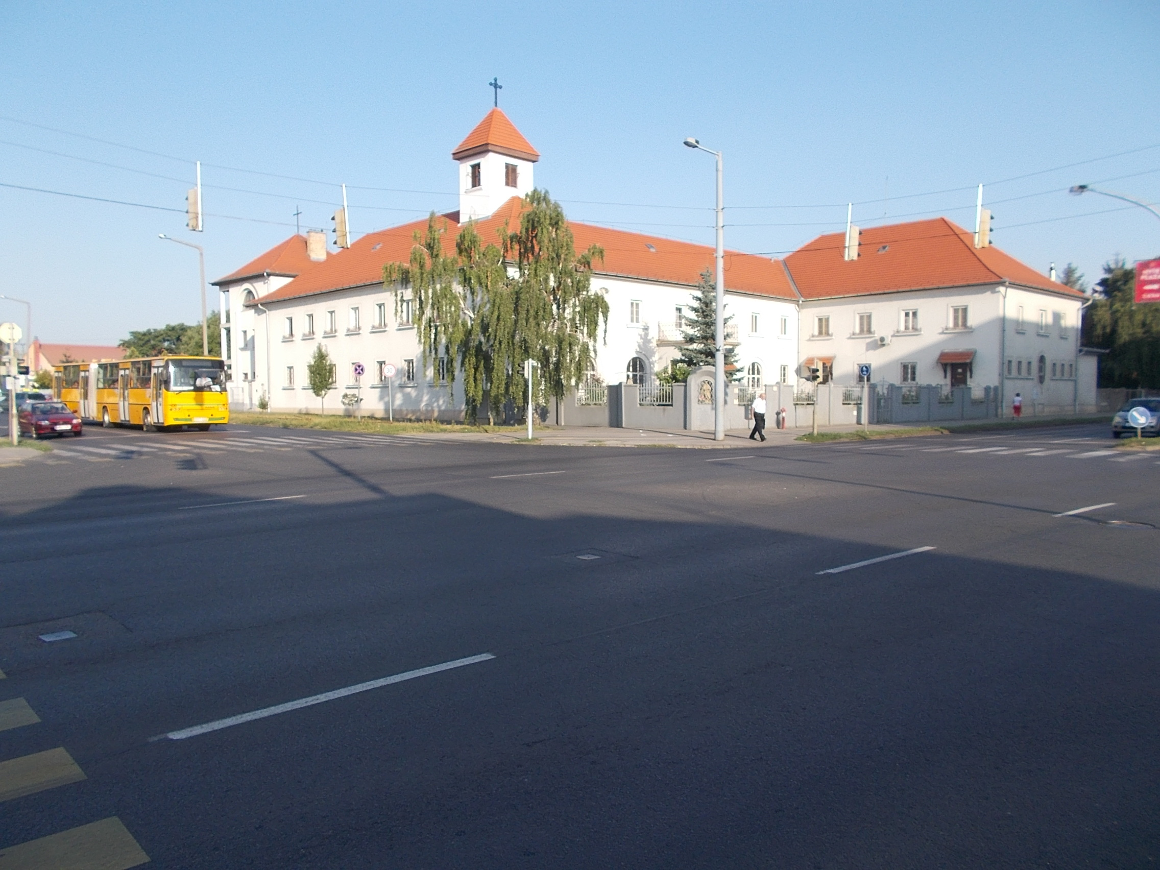 Saint Anthony of Padua Church built in 1938 as a Franciscan monastery. Planned by Gyula Wälder, constructed by Ferenc Tutkovics. Now ecclesiastical social home (or priests). - Vasgyári Street, Nyíregyháza, Szabolcs-Szatmár-Bereg County, Hungary.